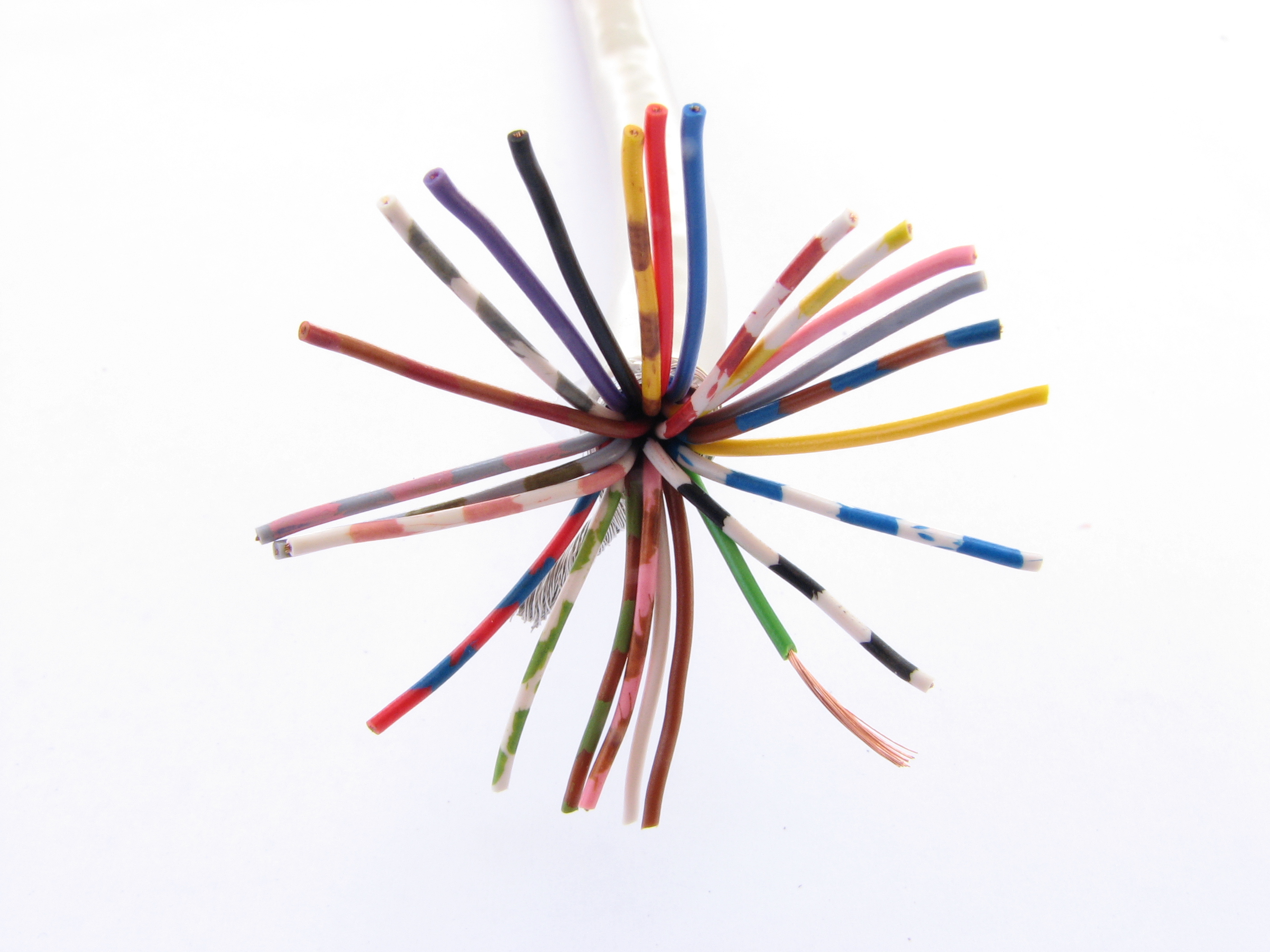 Multicore cable (25x0.14mm) with PVC insulation and 85% copper mesh shielding.